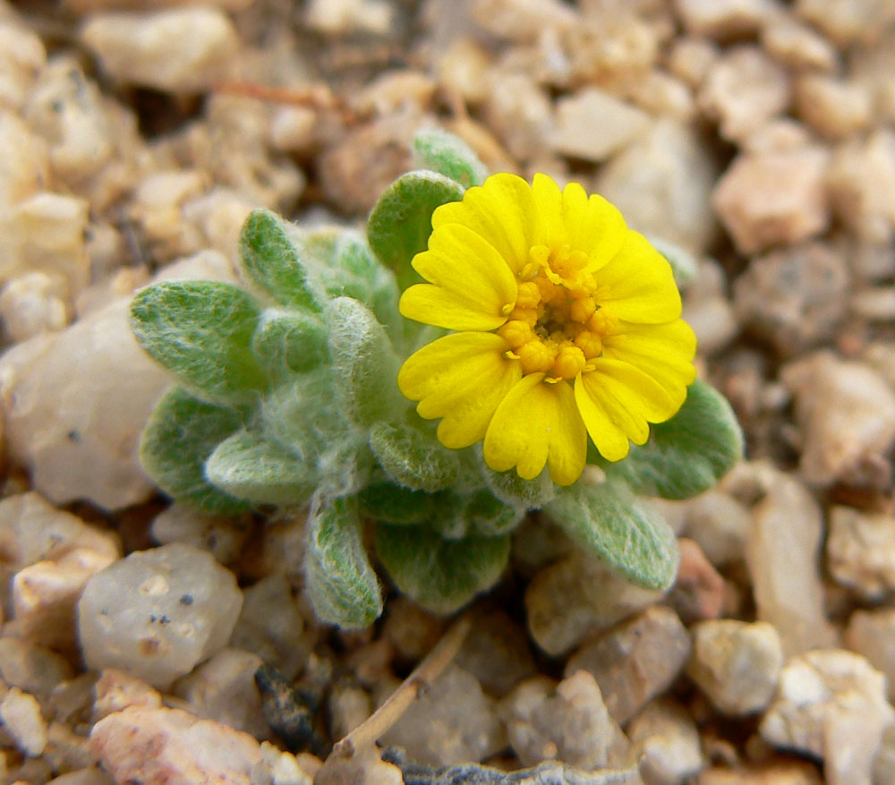 Eriophyllum wallacei off the Nipton Mine road, Mojave National Preserve, southern California